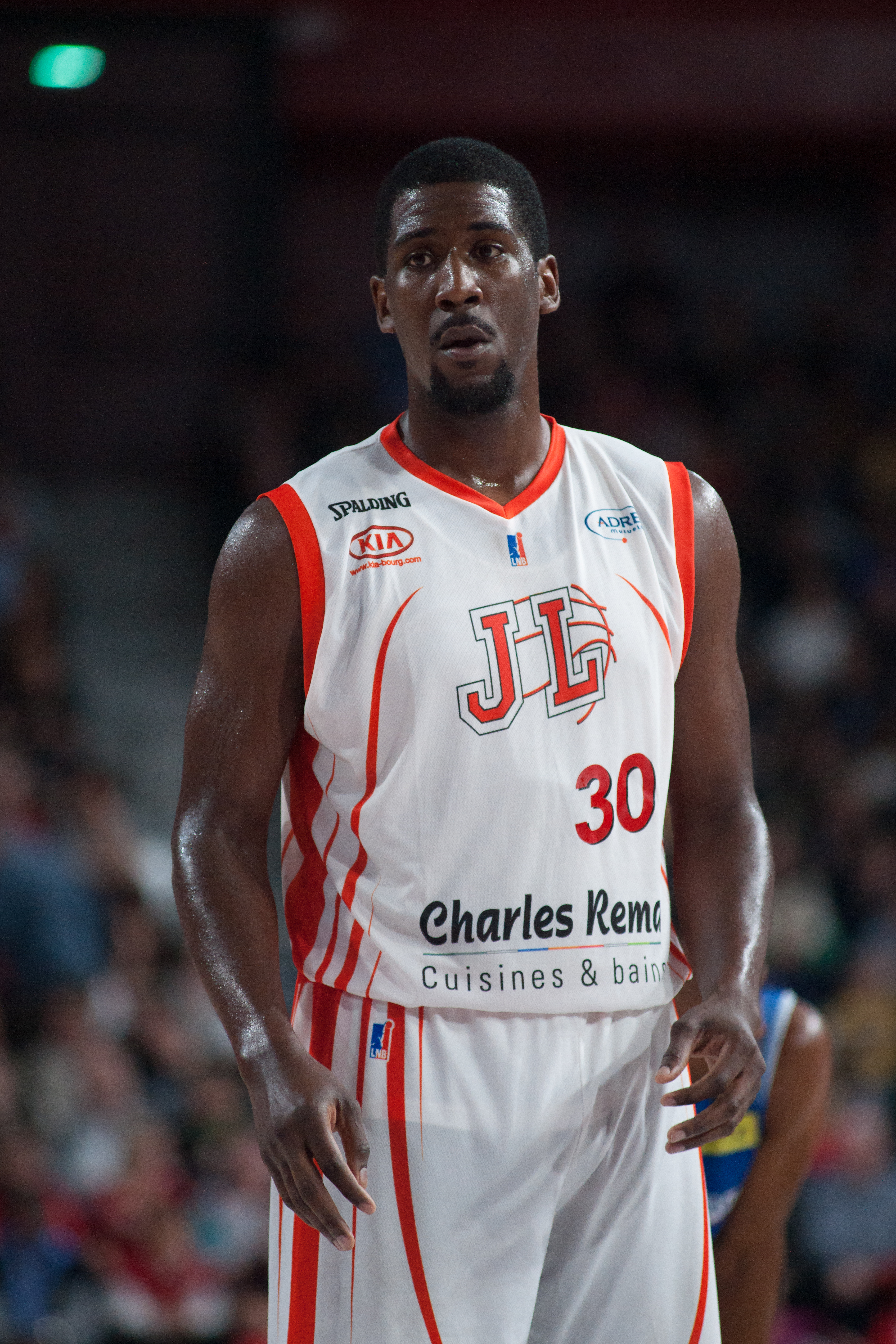 Bourg-en-Bresse vs. Paris-Levallois, 15th November 2014